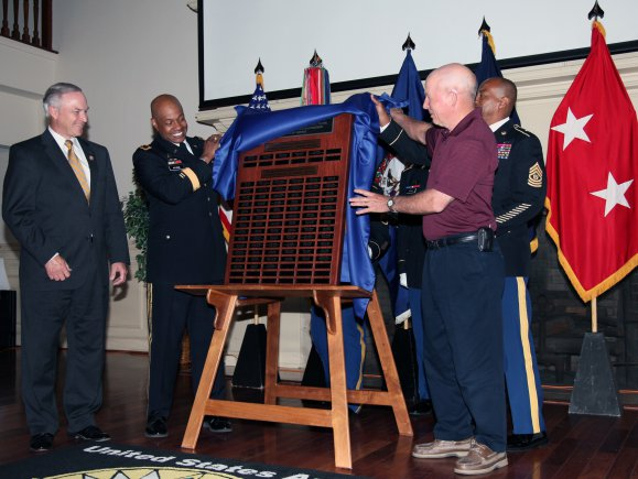 Celebration of Department of the Army Civilian with 40 plus years of service.